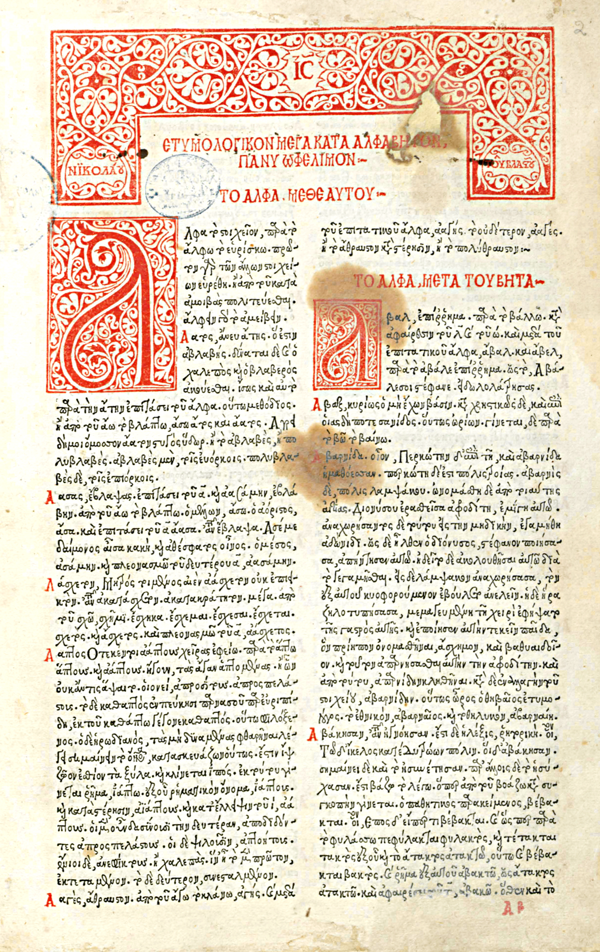 First page of letter A, Etymologicum Magnum, 1499 edition